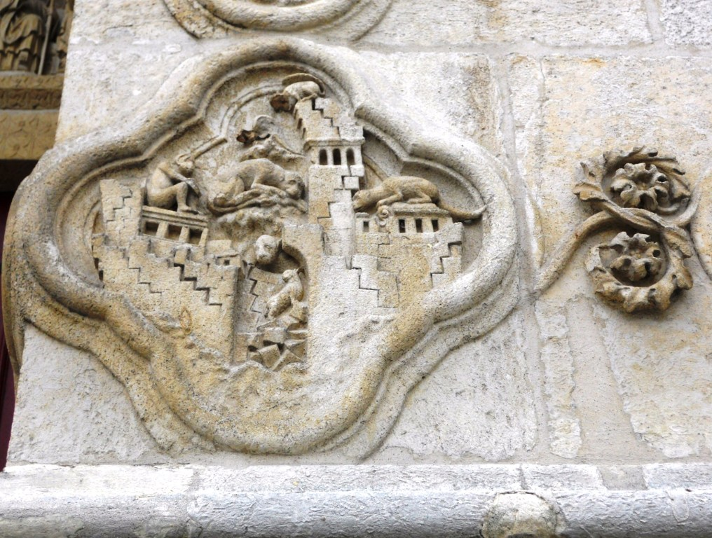 Amiens, ruin of a city